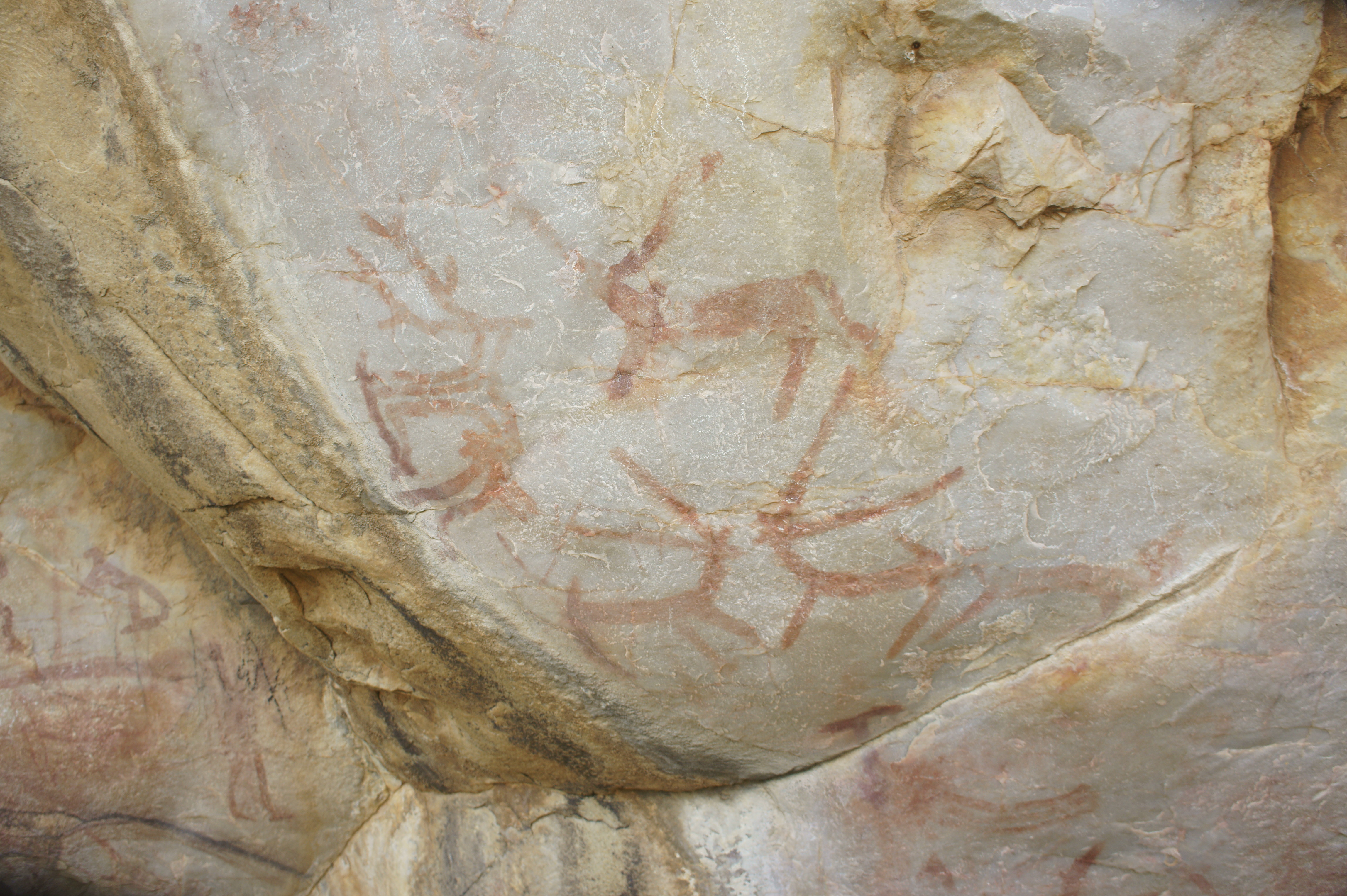 20.KM from Kurnool City, these paintings are 8000 years old (6000 B.C.)